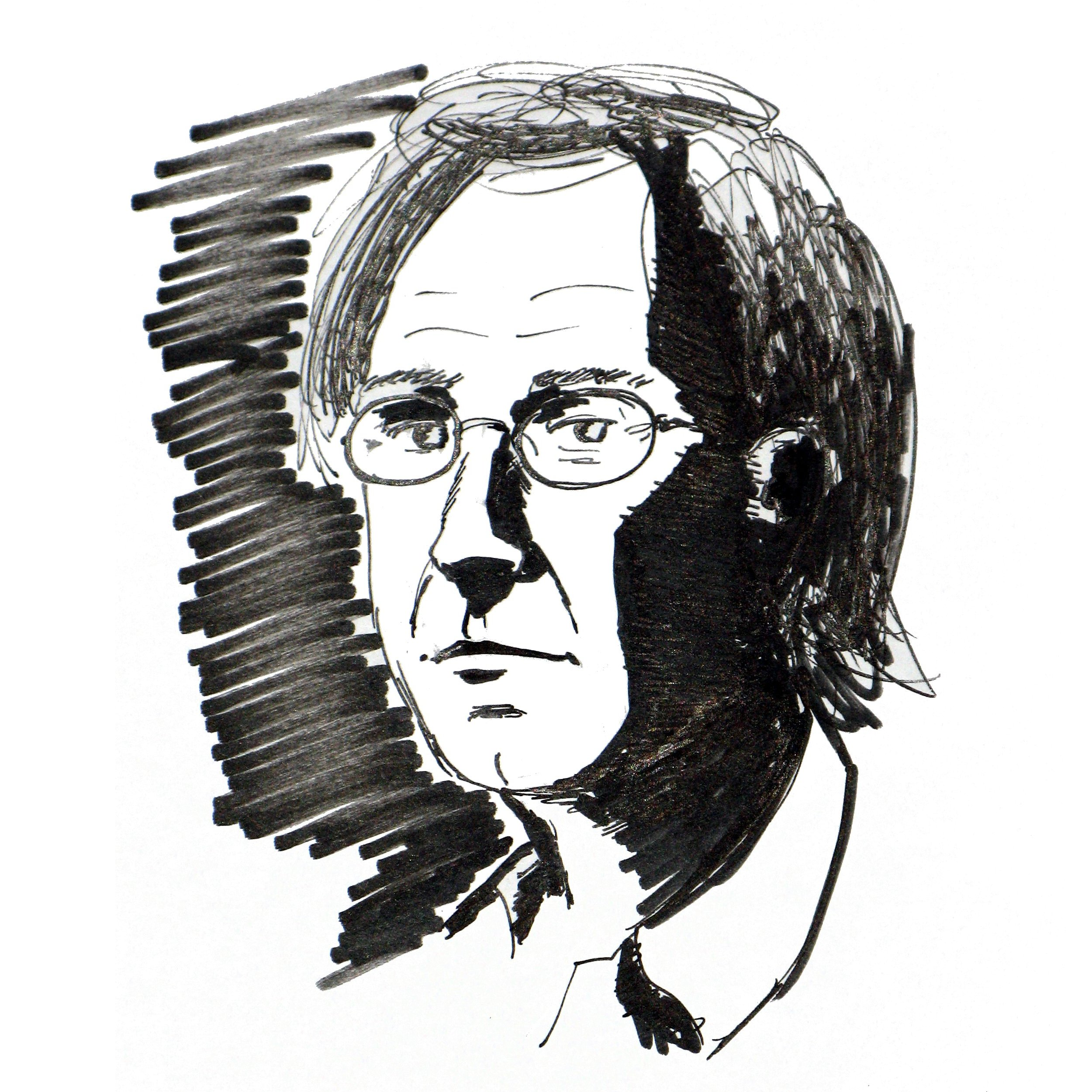 Philippe Herreweghe